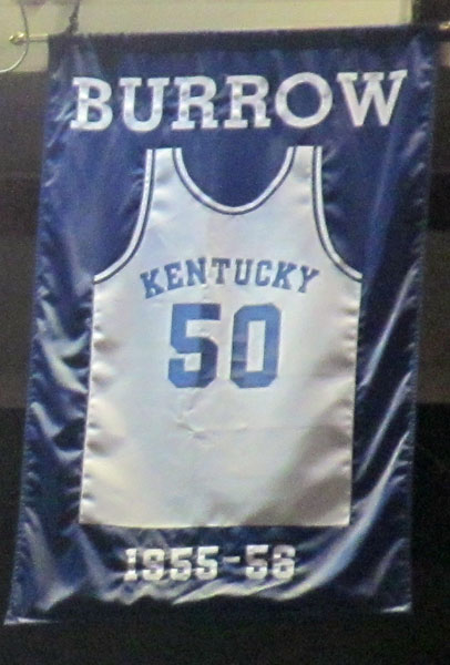 A jersey honoring Bob Burrow hanging in Rupp Arena in Lexington, Kentucky